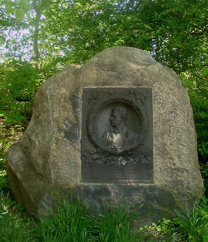 Memorial tablet to Henry W. Maxwell Grand Army Plaza, Brooklyn at St John's Place